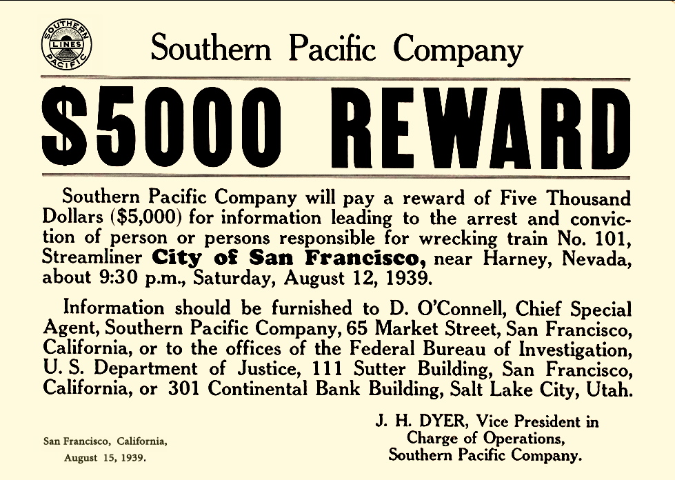 $5,000 reward poster for information about the derailment of Train 101, City of San Francisco, near Harney, NV on August 12, 1939